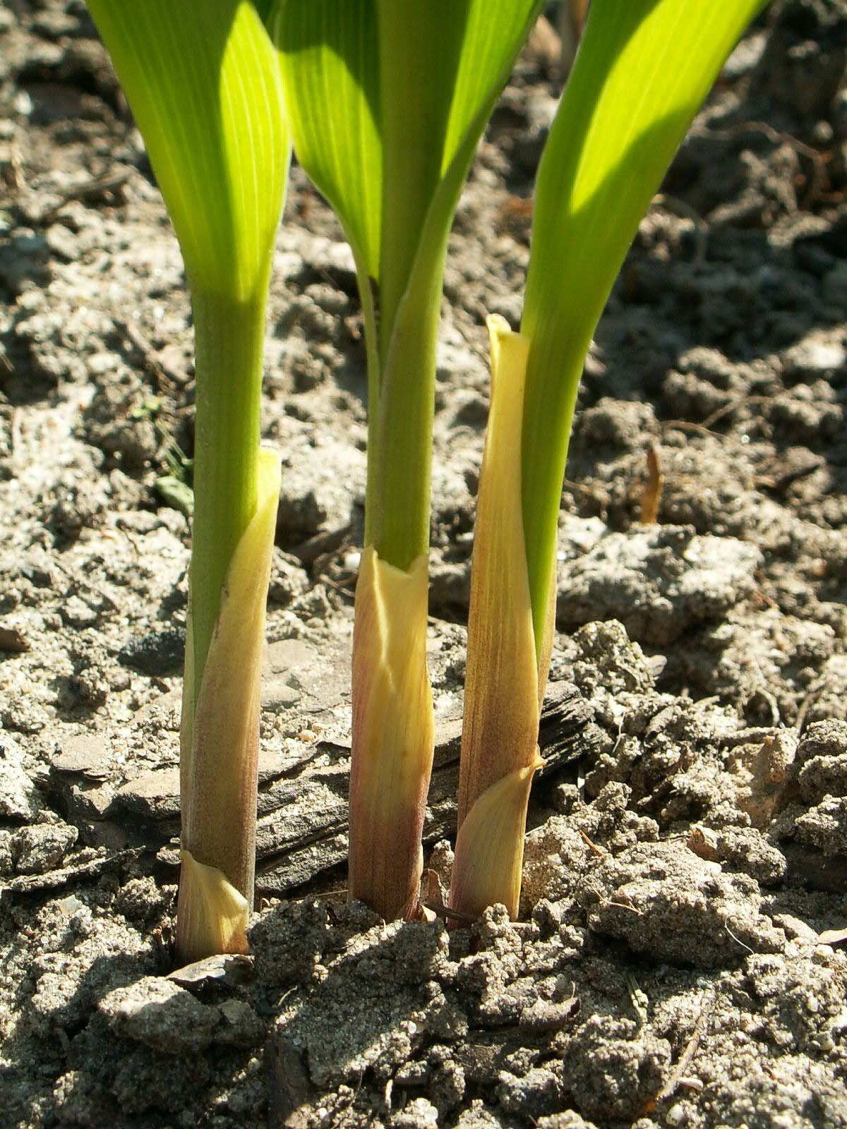 Leaves of Convallaria majalis.